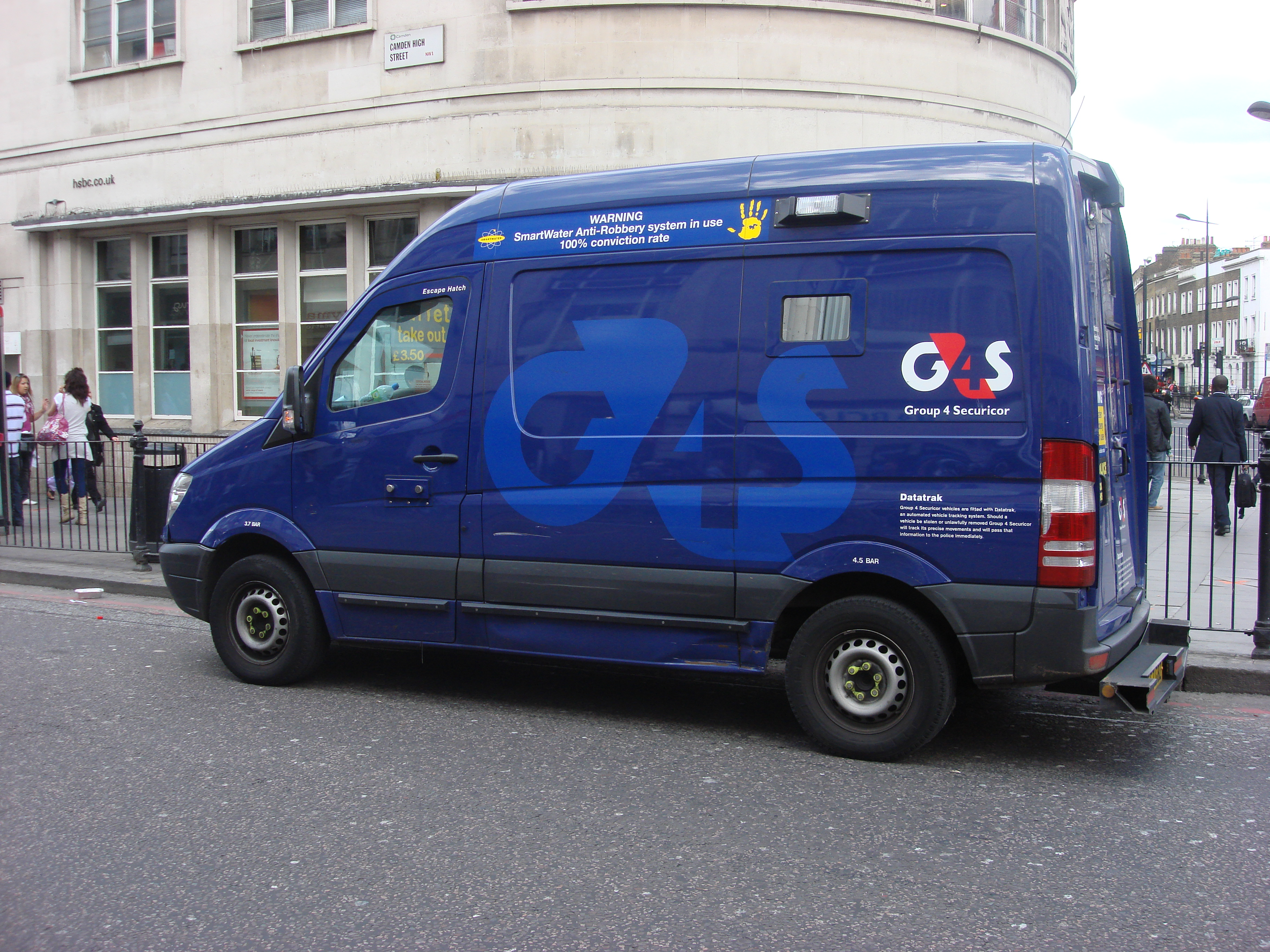 Group 4 Securicor van. Camden High Street, Camden Town, London